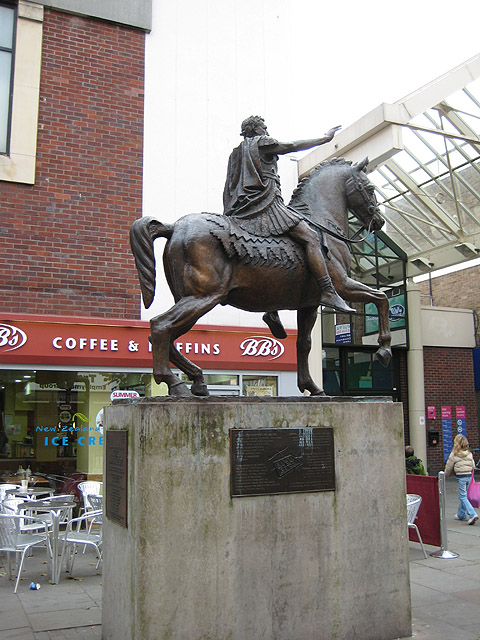 Statue of Marcus Cocceius Nerva Augustus The Emperor after whom Roman Gloucester was named - Colonia Nerviana Glenvensis. Stands in Southgate Street near the entrance to a shopping arcade.